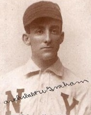 Photograph of baseball player Moonlight Graham